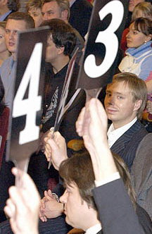 Jury members of the KVN showing their marks